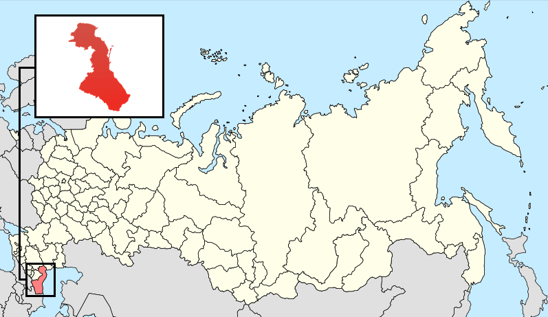 Map of Russia - Republic of Dagestan 2012